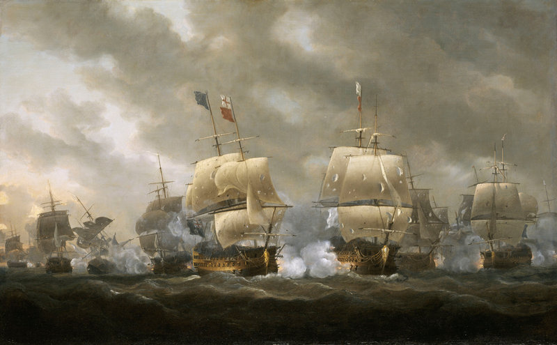 Battle of Quiberon Bay, 20th of November (1759)